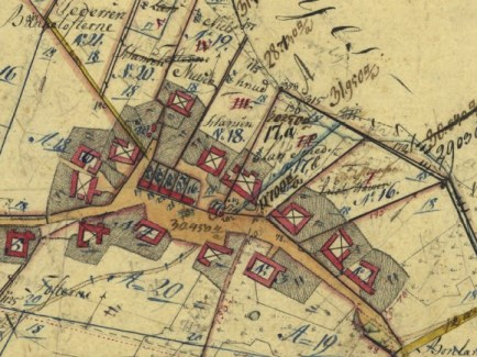 Matrikelkort fra Raabymagle dækkende perioden 1809-1860